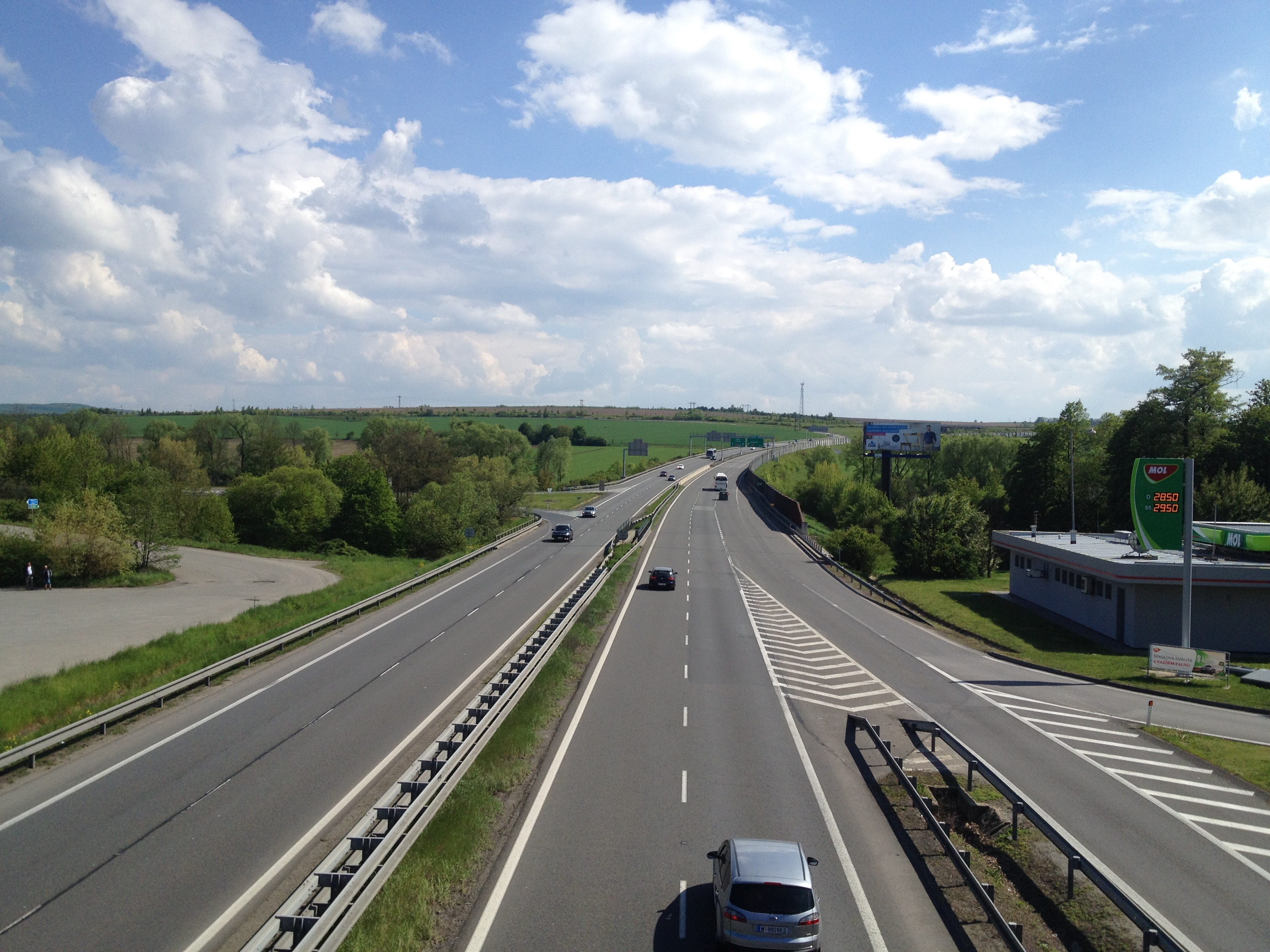 Czech highway D46 on its 1st kilometr in direction to Vyškov at interchange Vyškov.